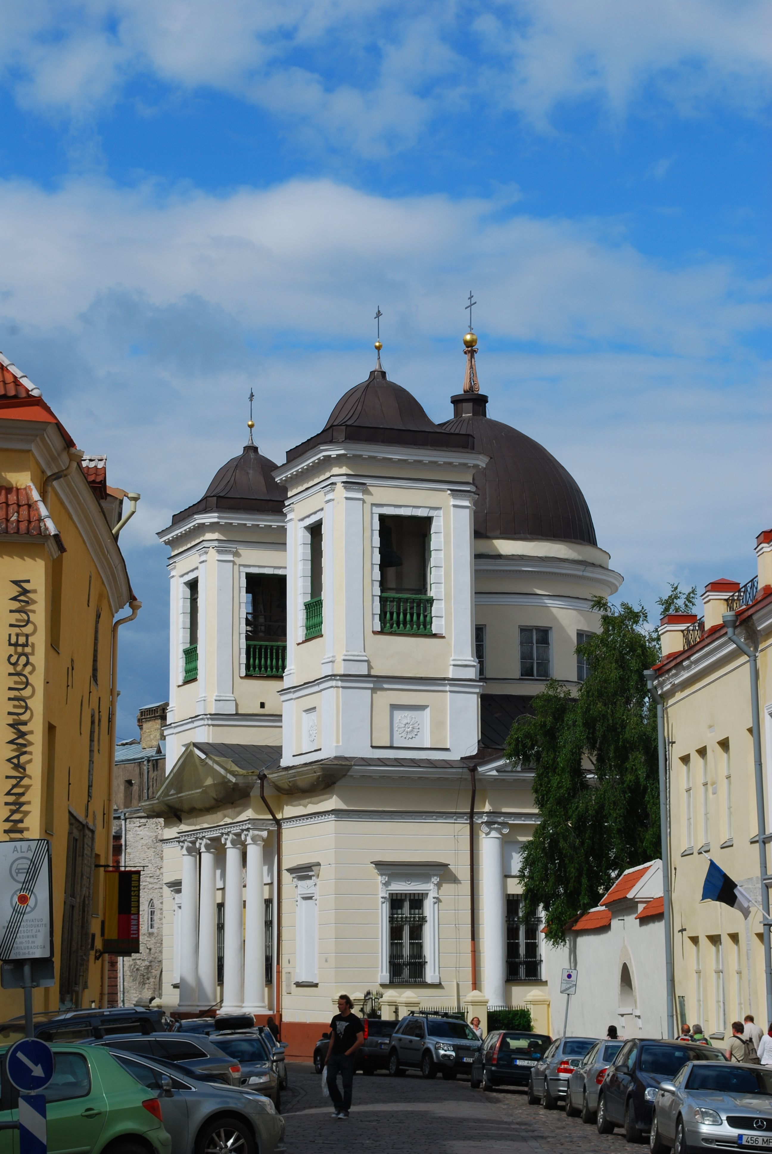 Orthodox church of St. Nicholas in Tallinn, EstoniaRomână: Biserica ortodoxă Sfântul Nicolae din Tallinn, Estonia